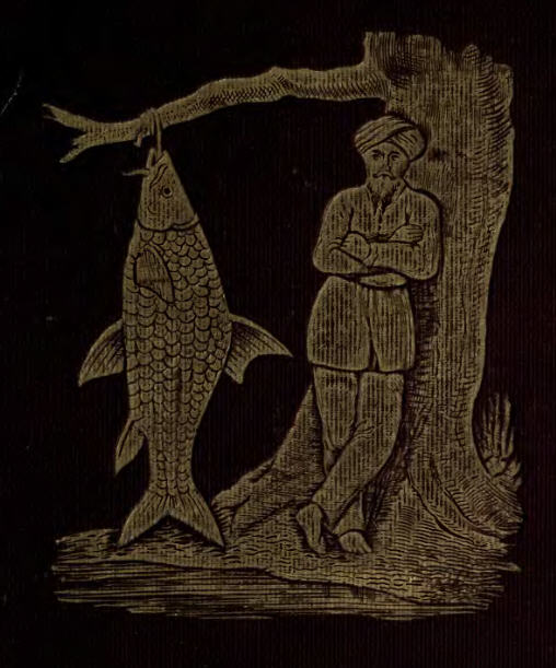 Cover of the Rod in India - book on fishing